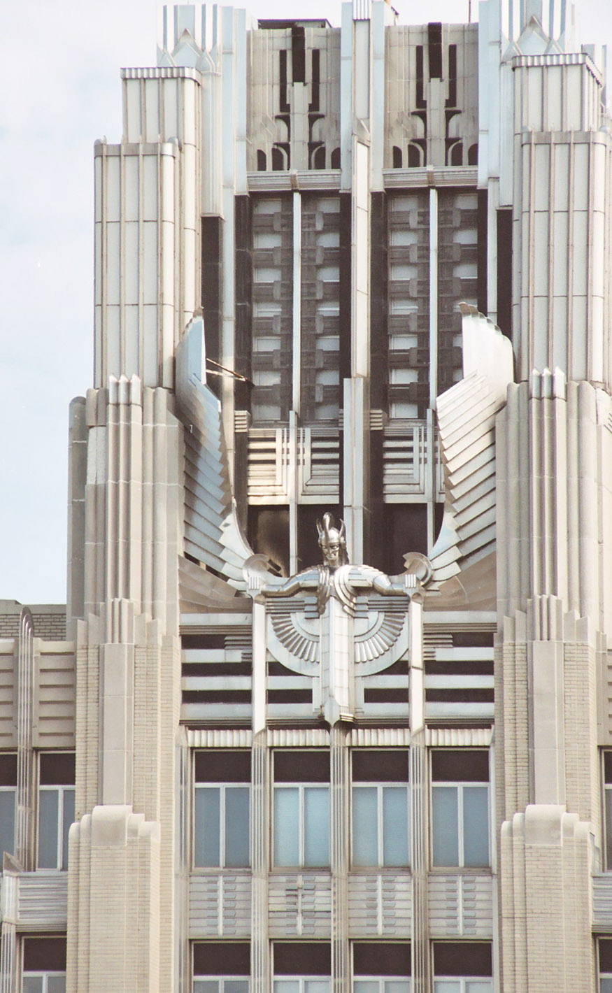 A large part of the Art Deco facade of the Niagara-Mohawk Power building, Syracuse, New York. Image taken June 29, 2005 by User:Leonard G.. See also :Image:MohawkNiagraFacadeSculpture.jpg for a smaller clip of the sculpture.